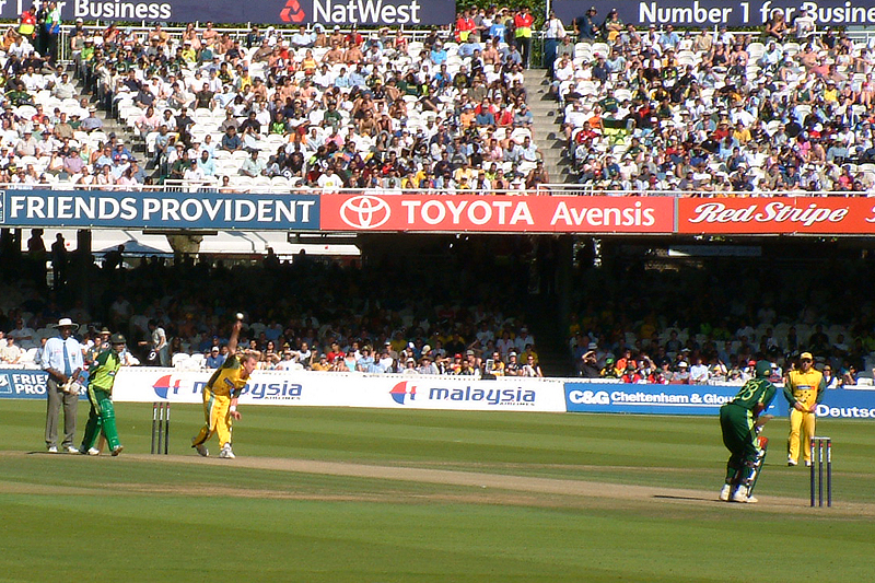 Brett Lee bowling at Lords against Pakistan. ICC Champions Trophy 2004, warm up game, 4th September 2004.